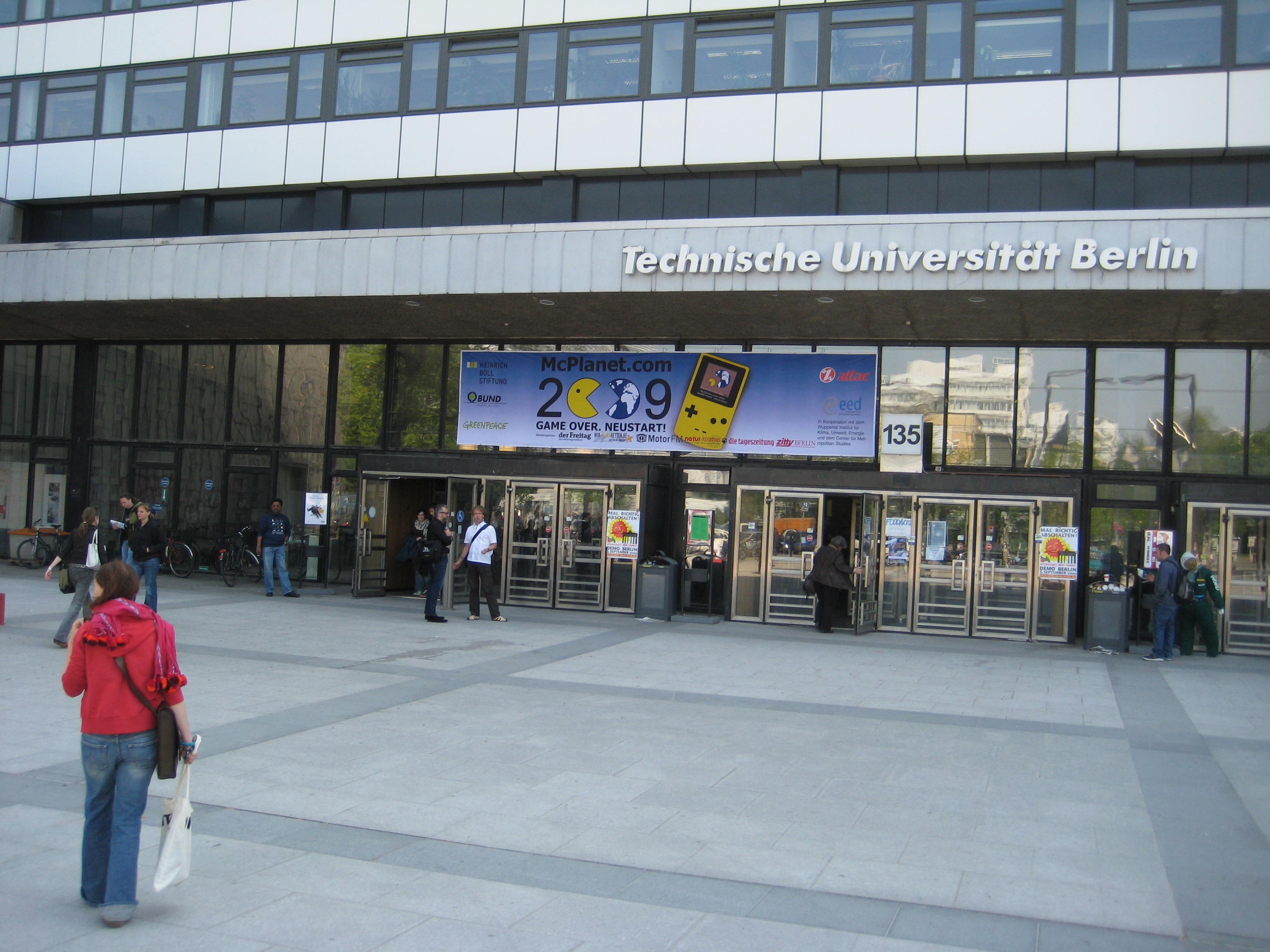 McPlanet congress at Technische Universität Berlin.